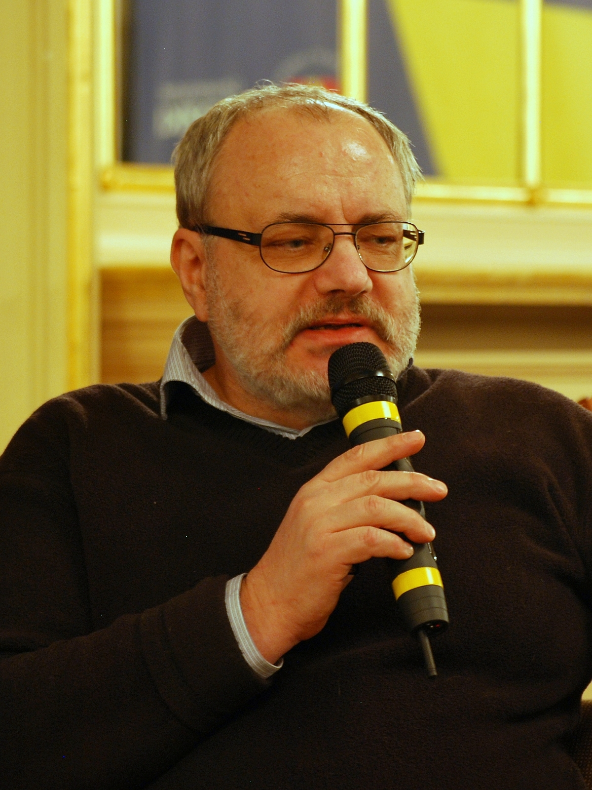 Jan Gondowicz, polish literary critic, translator and editor